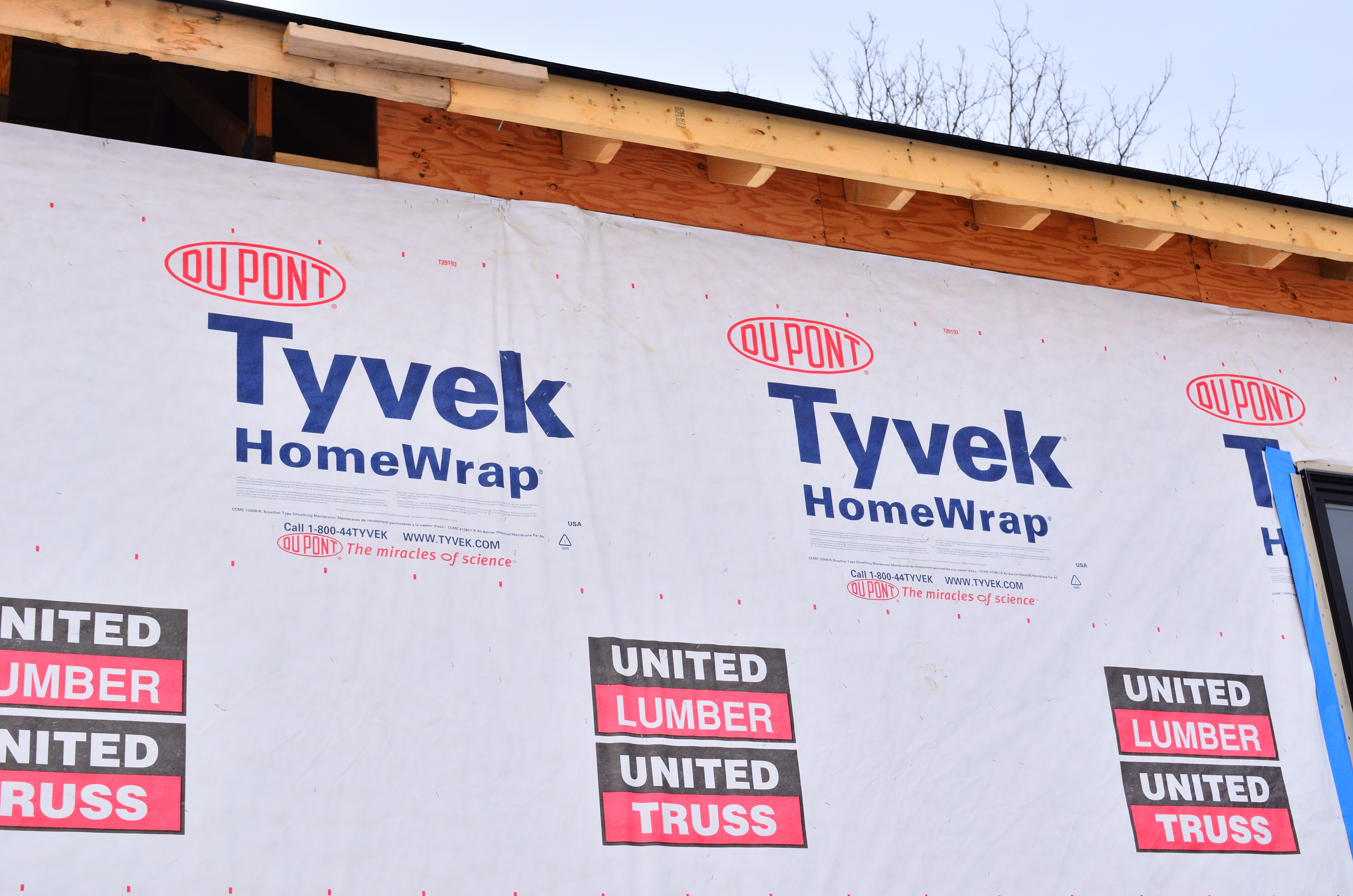 DuPont Tyvek